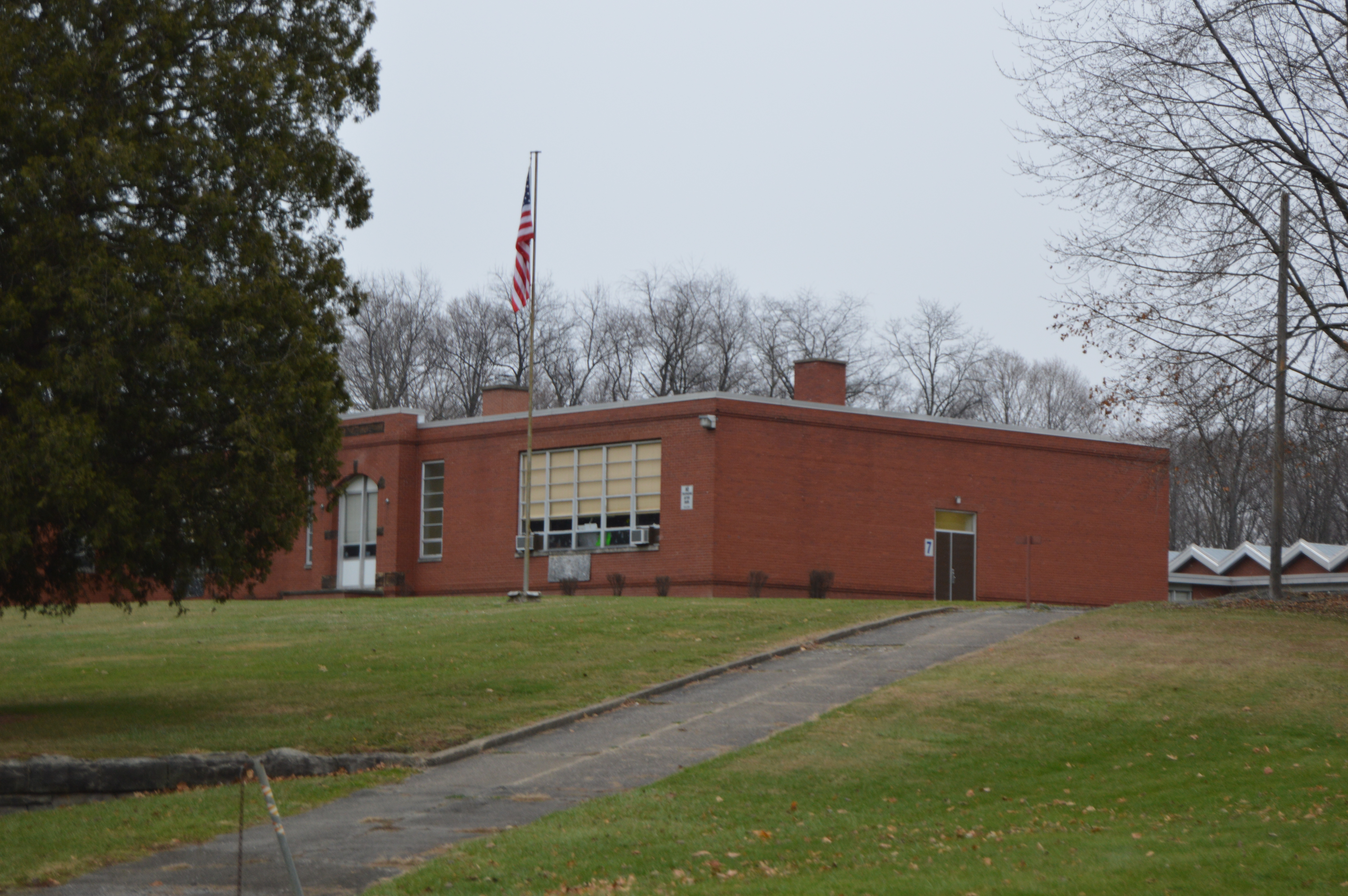 Front of the Wurtemburg Public School, located along Pennsylvania Route 488 in Perry Township, Lawrence County, Pennsylvania, United States. It was built in 1937 by the WPA.